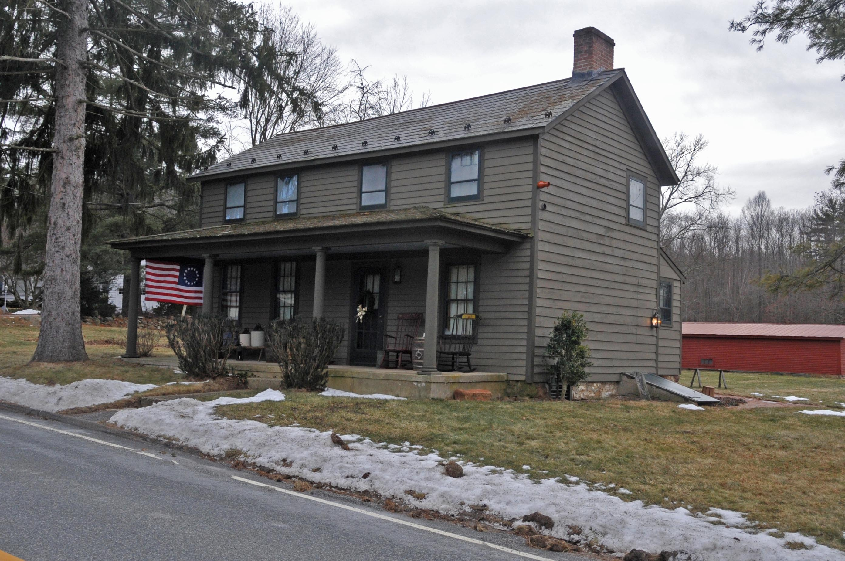 MAIN HOUSE OF A MID 19TH CENTURY FARMSTEAD IN THE POHATCONG VALLEY; ALSO ON THE FARM ARE SEVERAL OUTBUILDINGS INCLUDING 2 CHICKEN COOPS